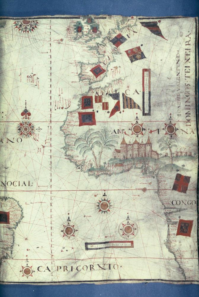 Right half of chart, showing part of the Atlantic, Britain, Europe and Africa